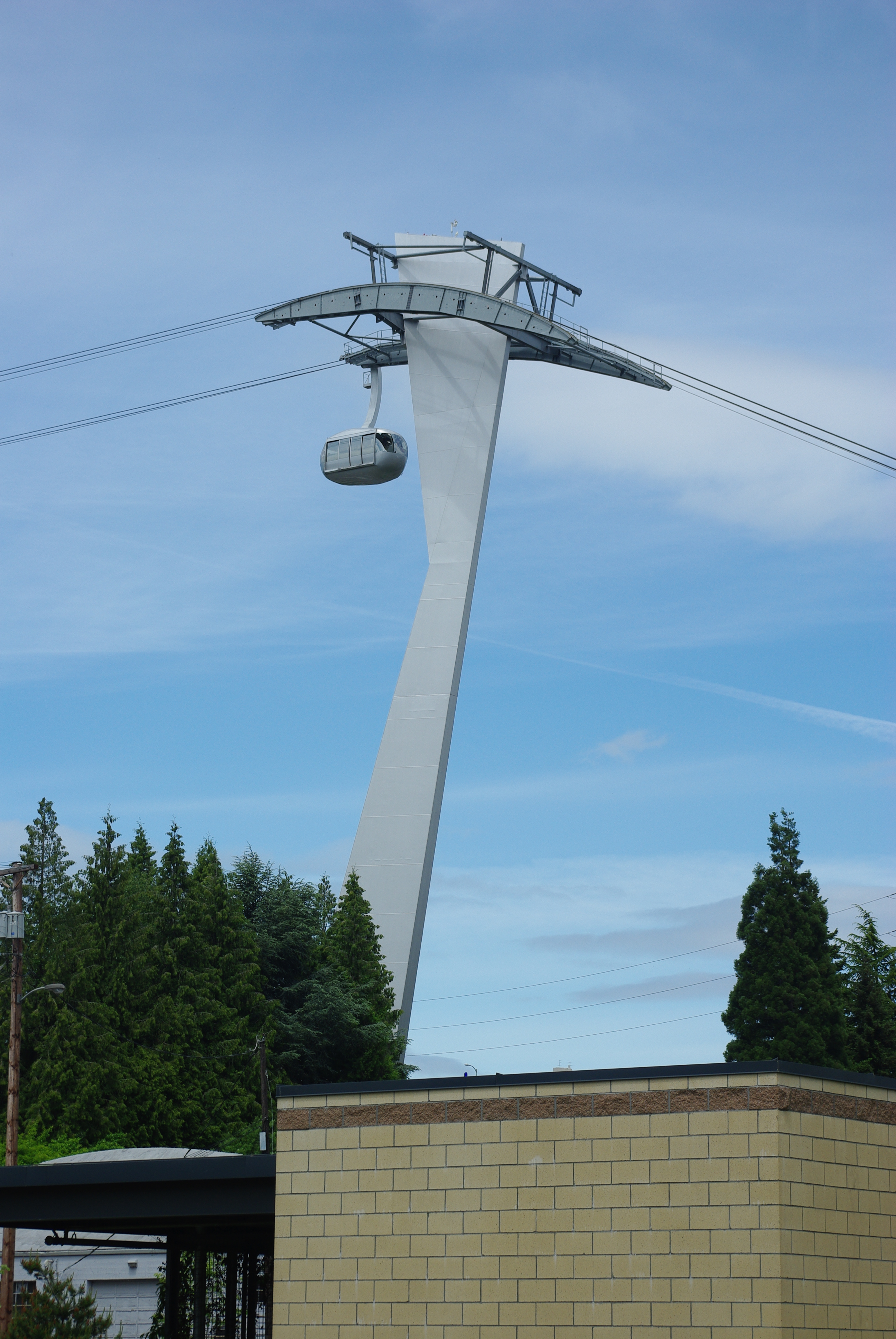 Portland Aerial Tram, USA. support